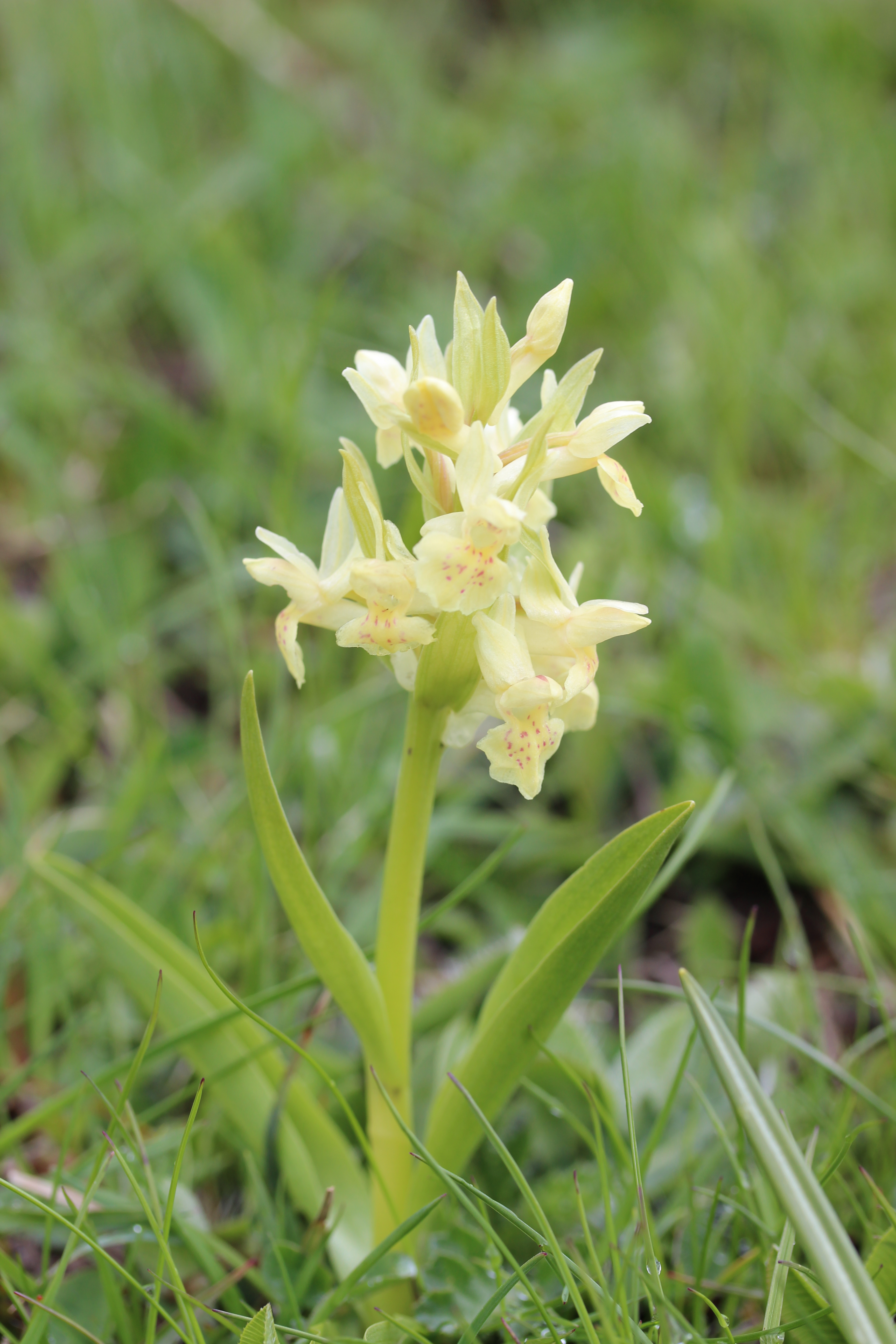 Elder-flowered Orchid - Dactylorhiza sambucina